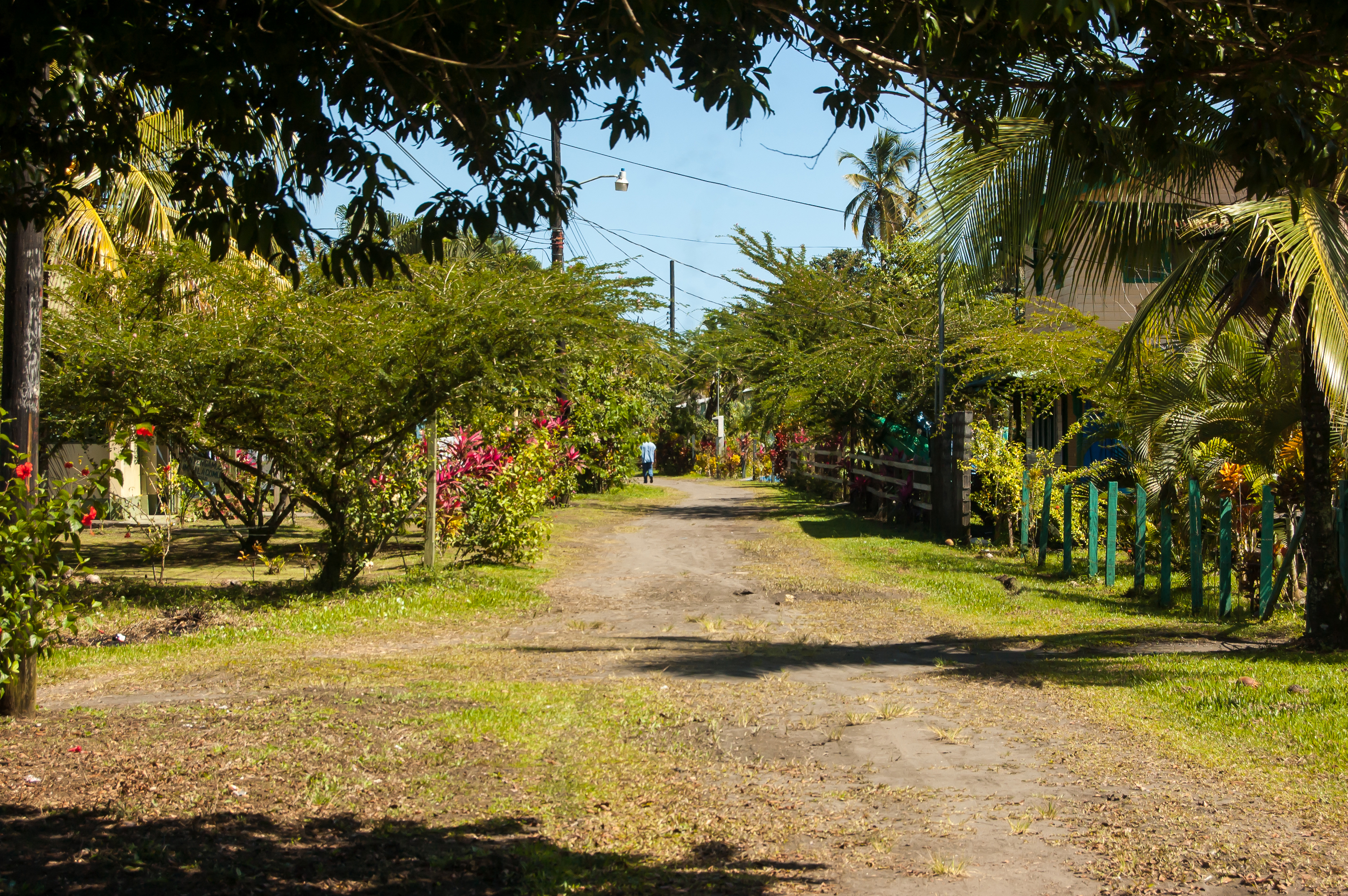 We appreciate any usage of this photo including for commercial purposes and will be glad if you maintain an active link to one of the author's websites: or